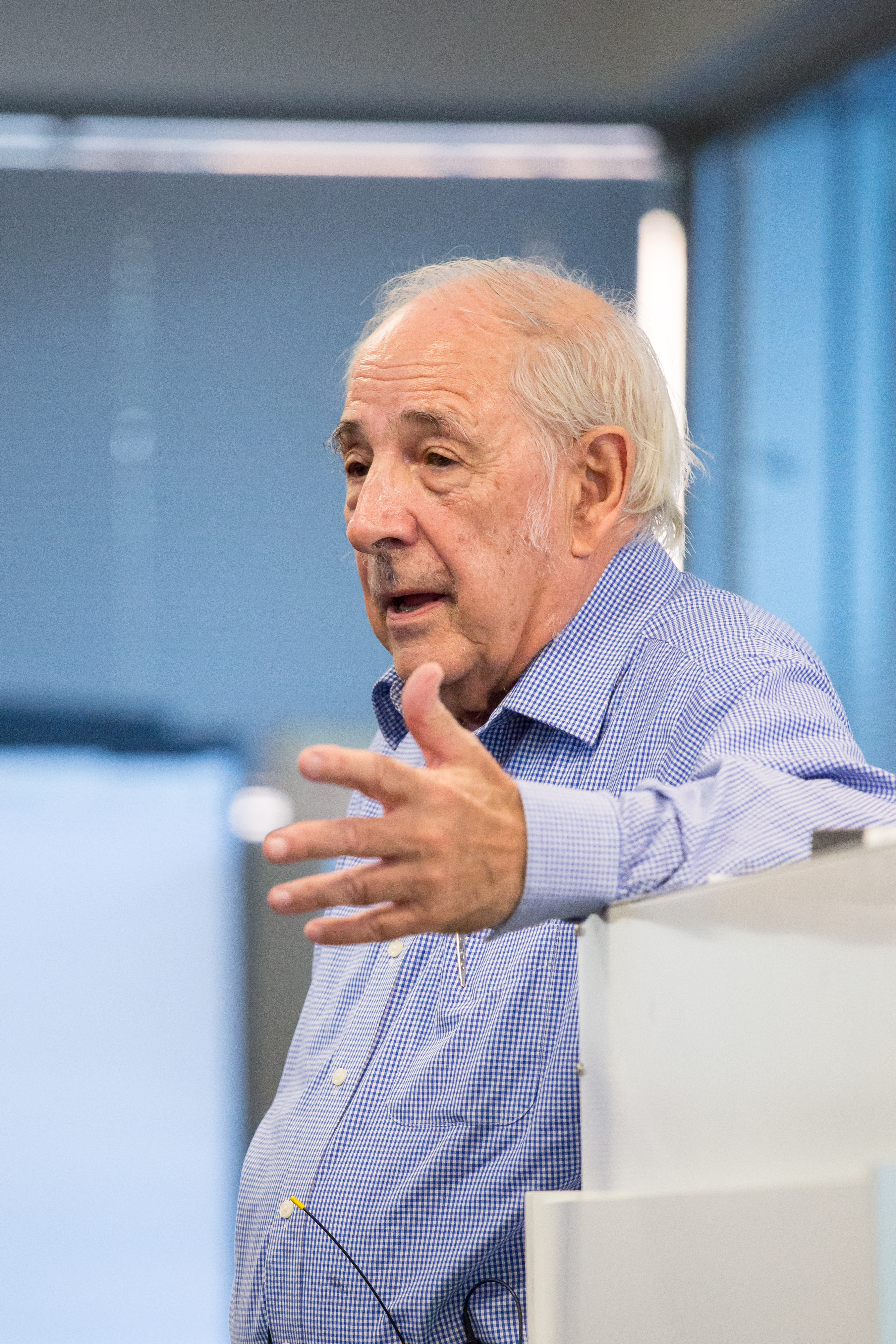 John Searle giving his talk "Consciousness in Artificial Intelligence" at Google in Mountain View on November 23, 2015. Video